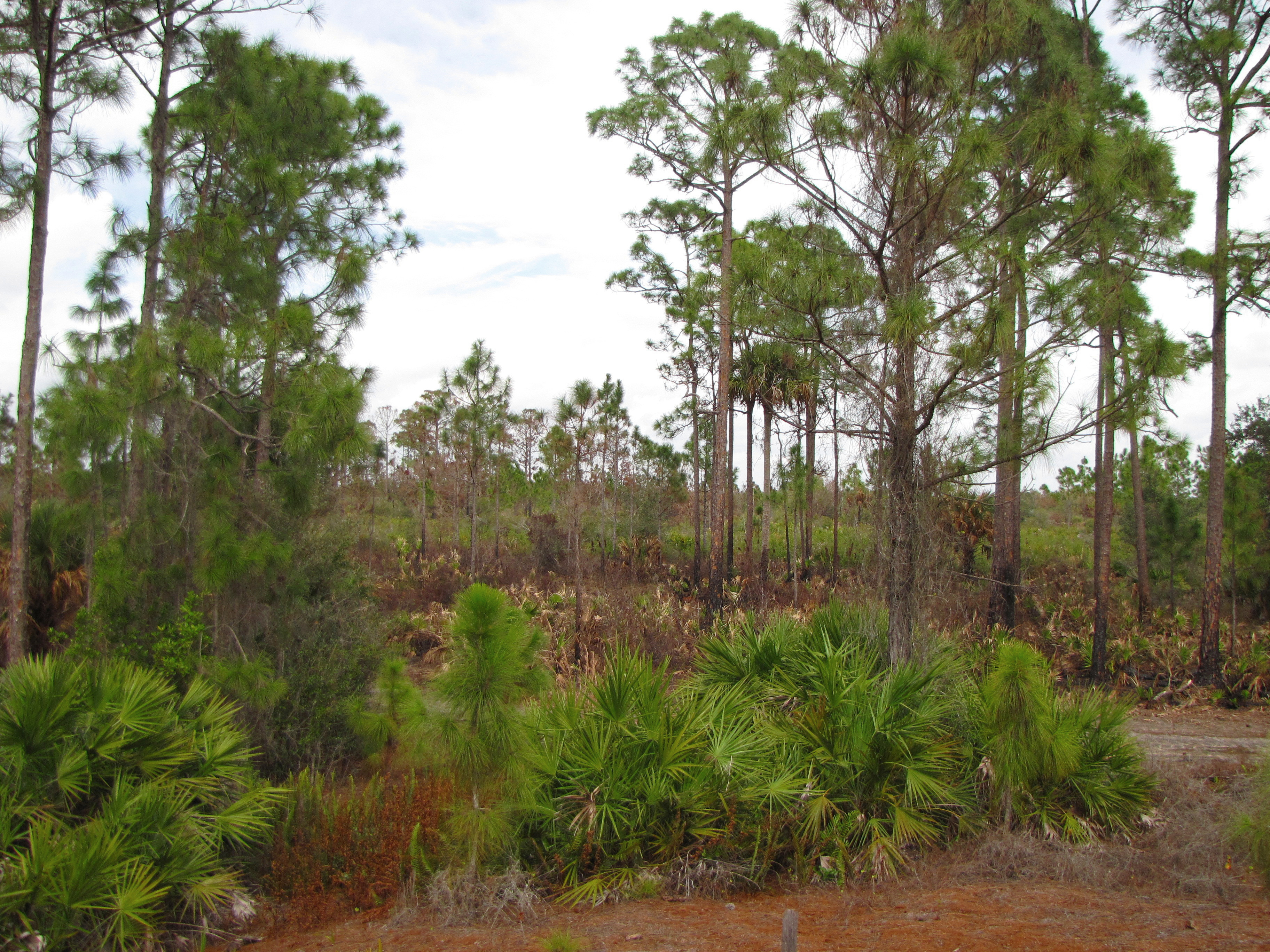 Pinus elliottii var. densa, Twin Mills Hiking Trail, Okaloacoochee Slough, Florida Trailwalker Trail, Hendry County, Florida.